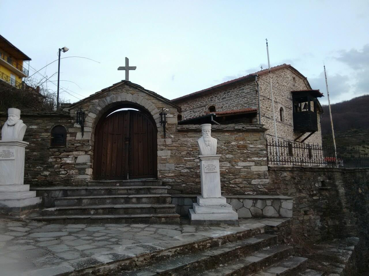 Saint Nicholas Church in Vlasti